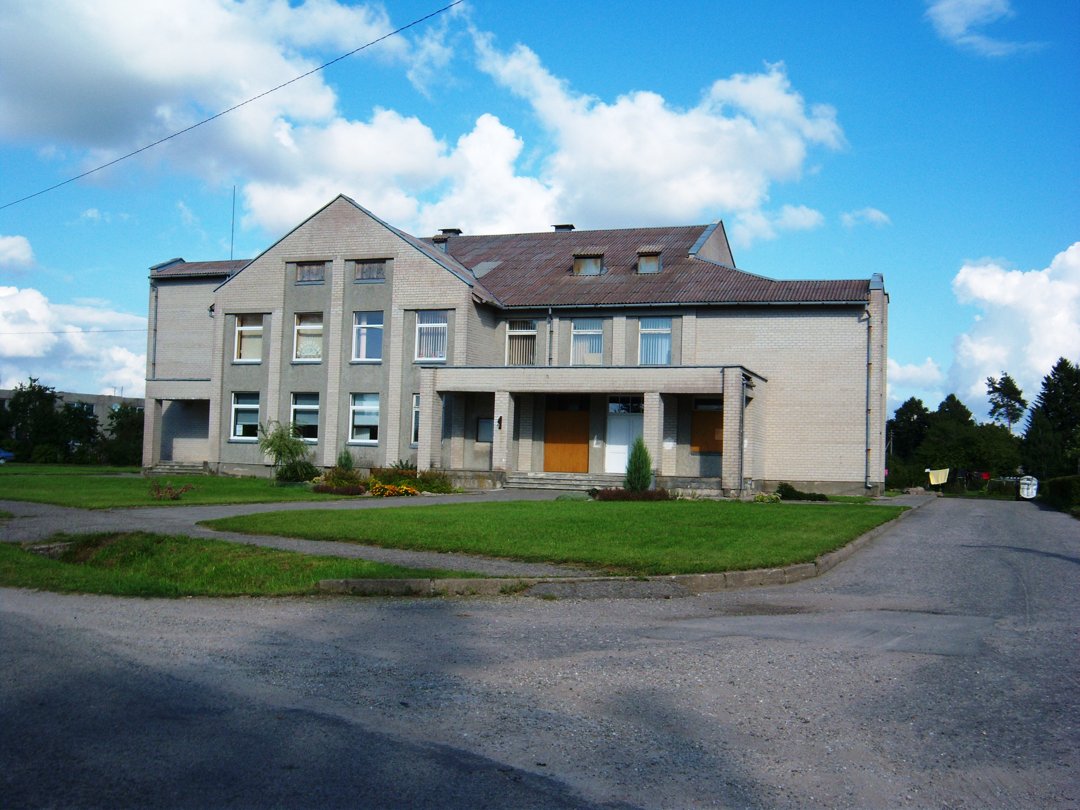 Lapiai village, Klaipėda District. Lithuania